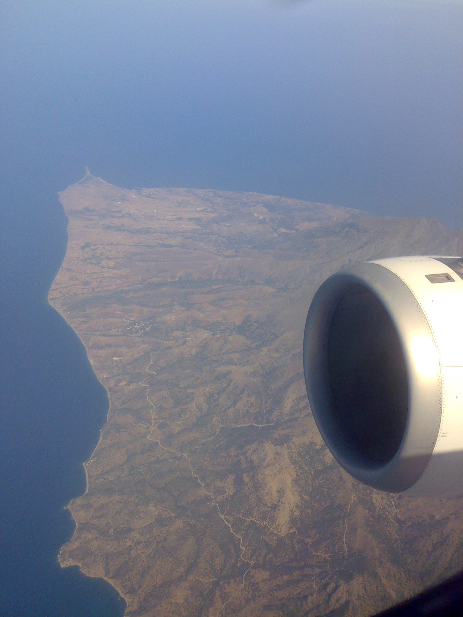 Aerial view